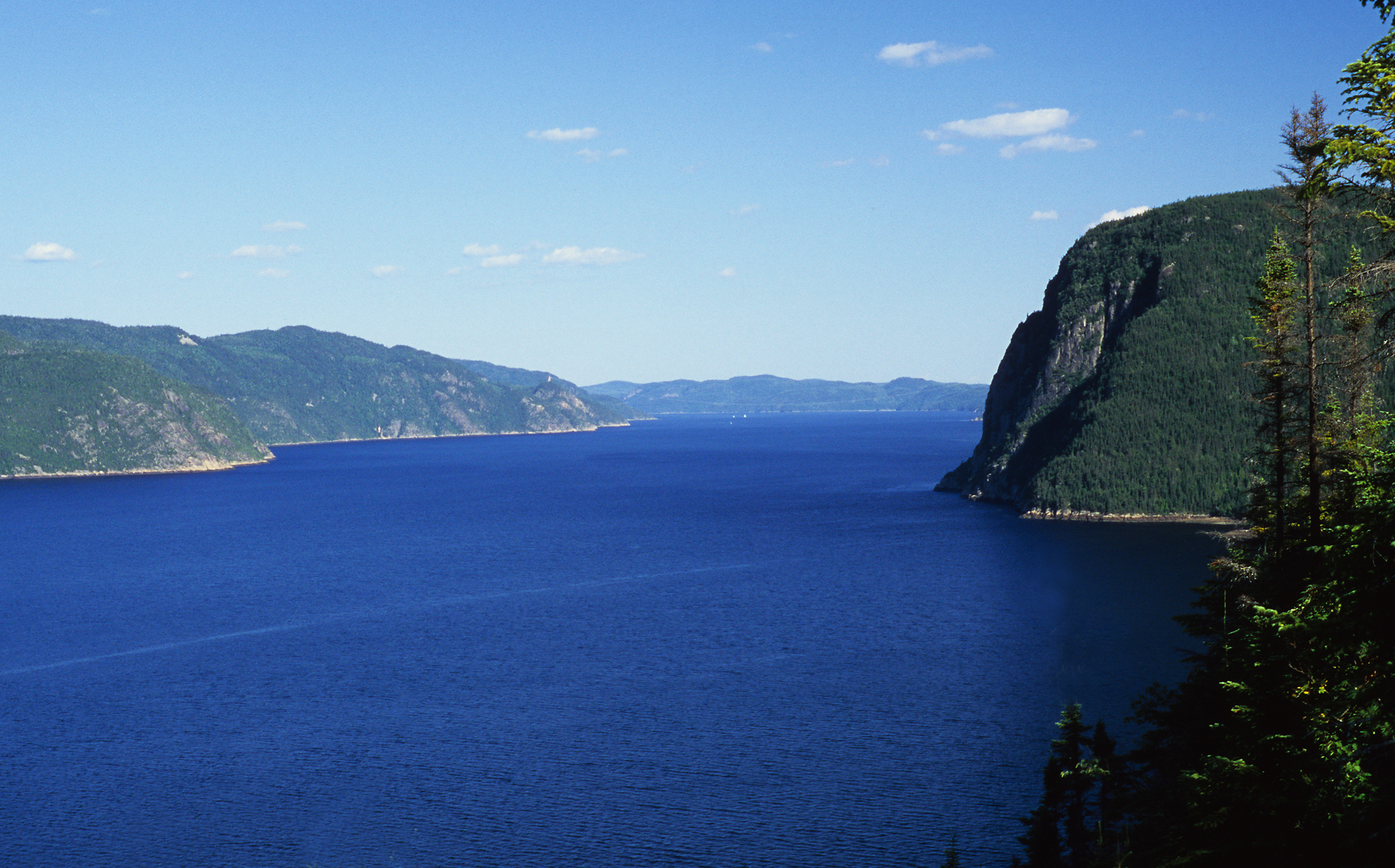 Saguenay river and Cap Éternité, seen from the first level of Cap Trinité, Fjord-du-Saguenay national park, Quebec, Canada.